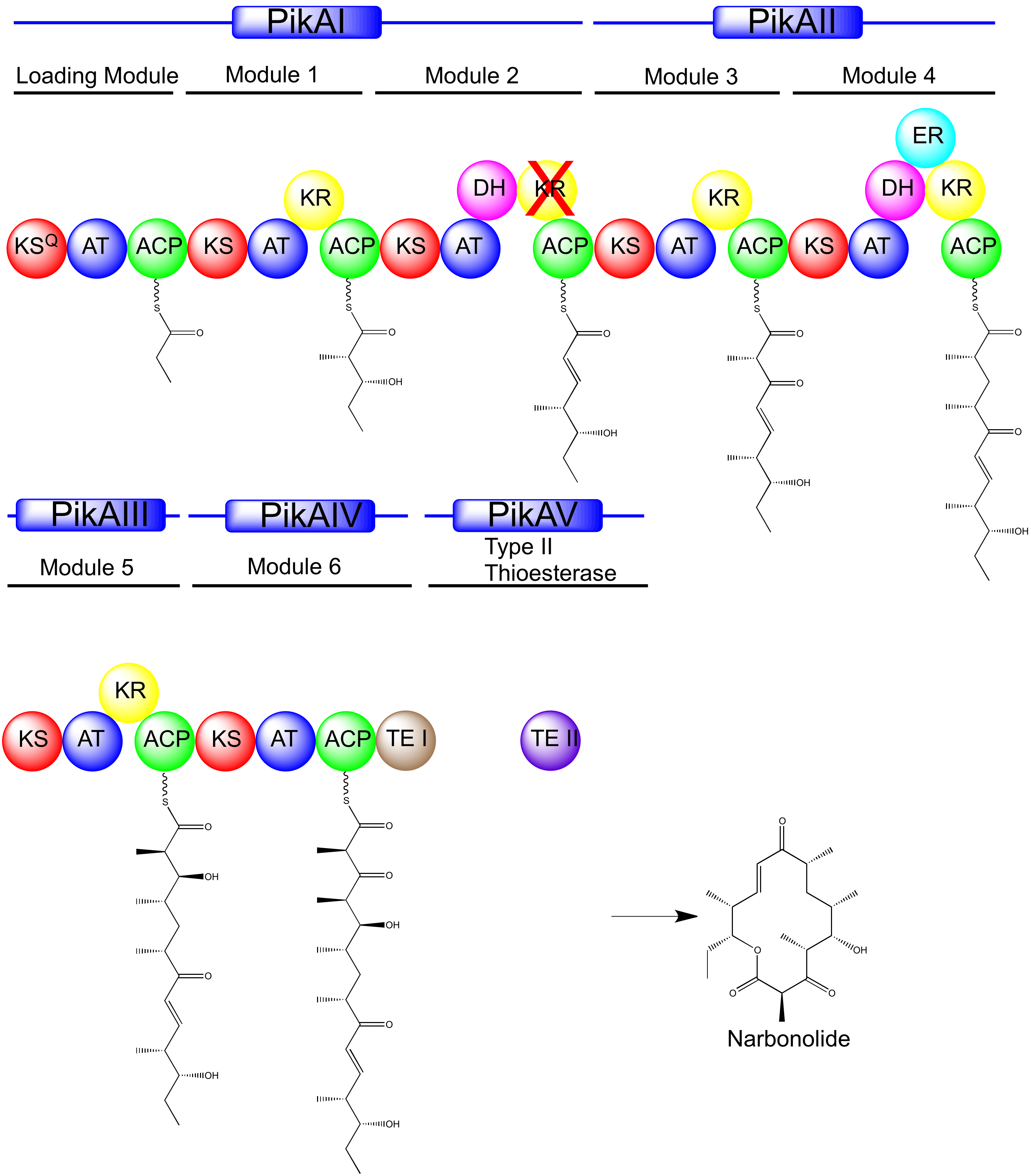 PikromycinPKS